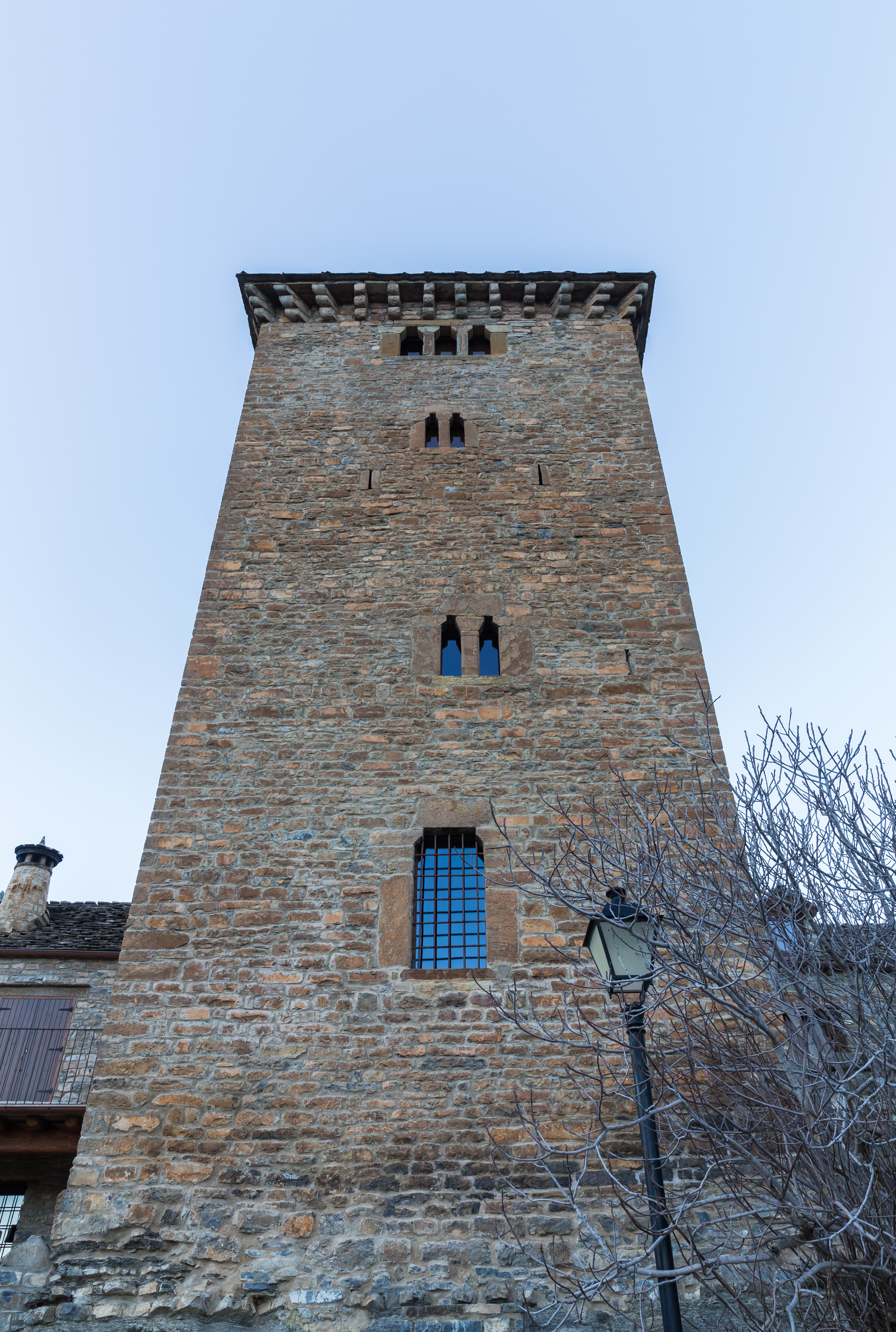 Tower of Oto, Oto, Huesca, Spain